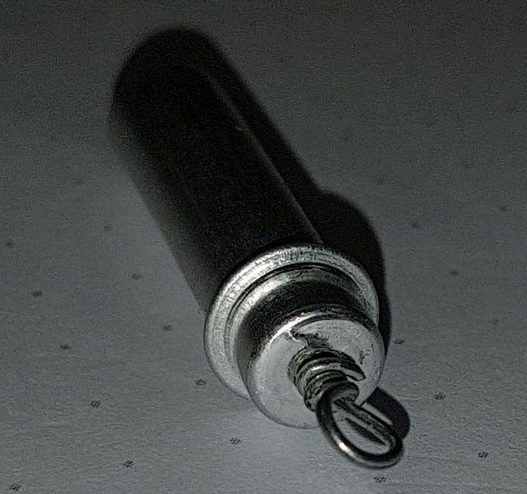 Break igniter (also: pull wire (fuse) lighter, pull wire fuze lighter). The freshly cut fuse end is inserted in the open end of the lighter until it touches the end of the wire, which is then deliberately pulled, setting off a mechanical lighting arrangement.